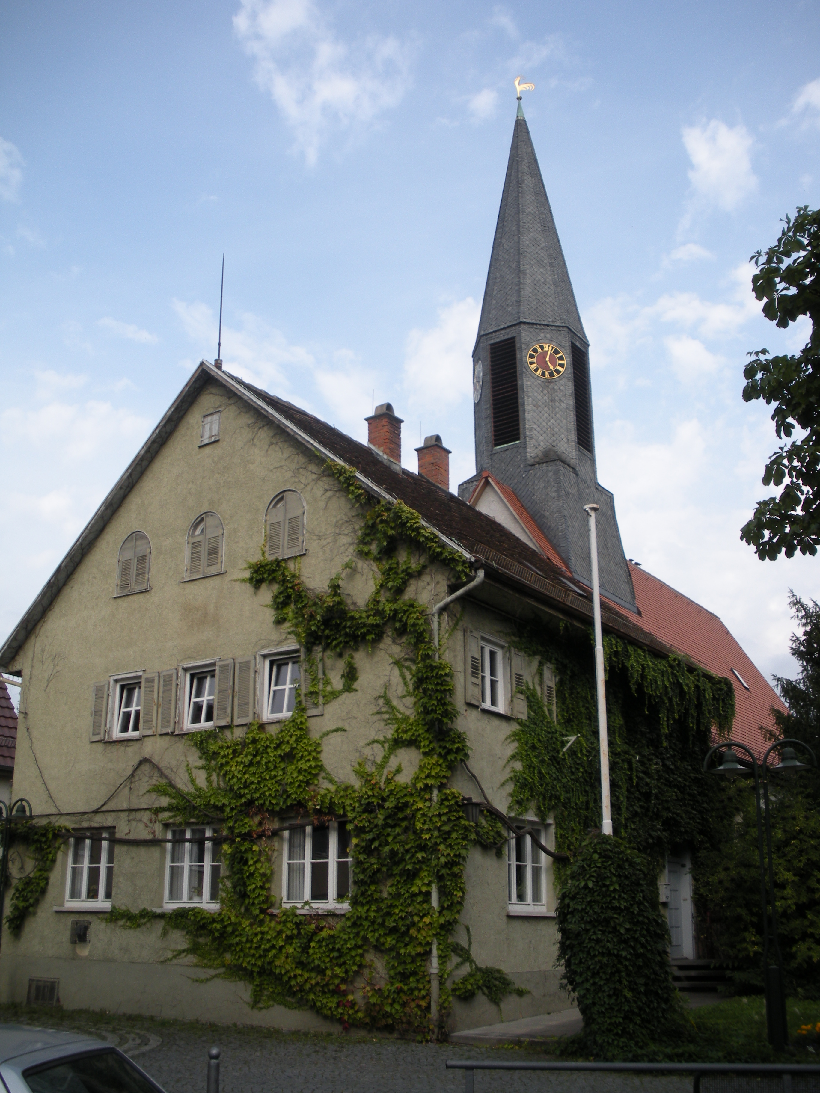 Old school house and Nazarius-Church in Stuttgart-Zazenhausen